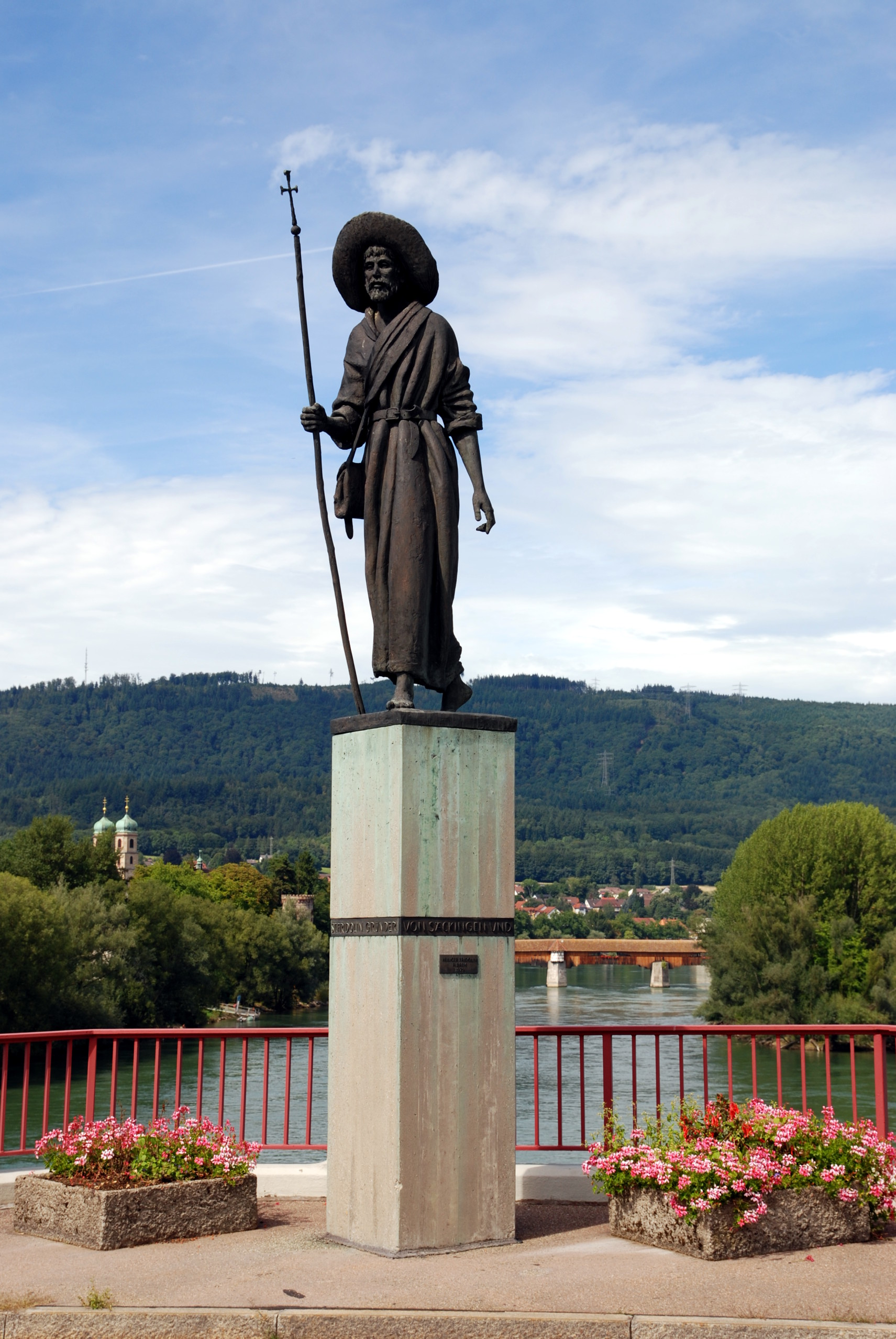 Statue of Fridolin of Säckingen